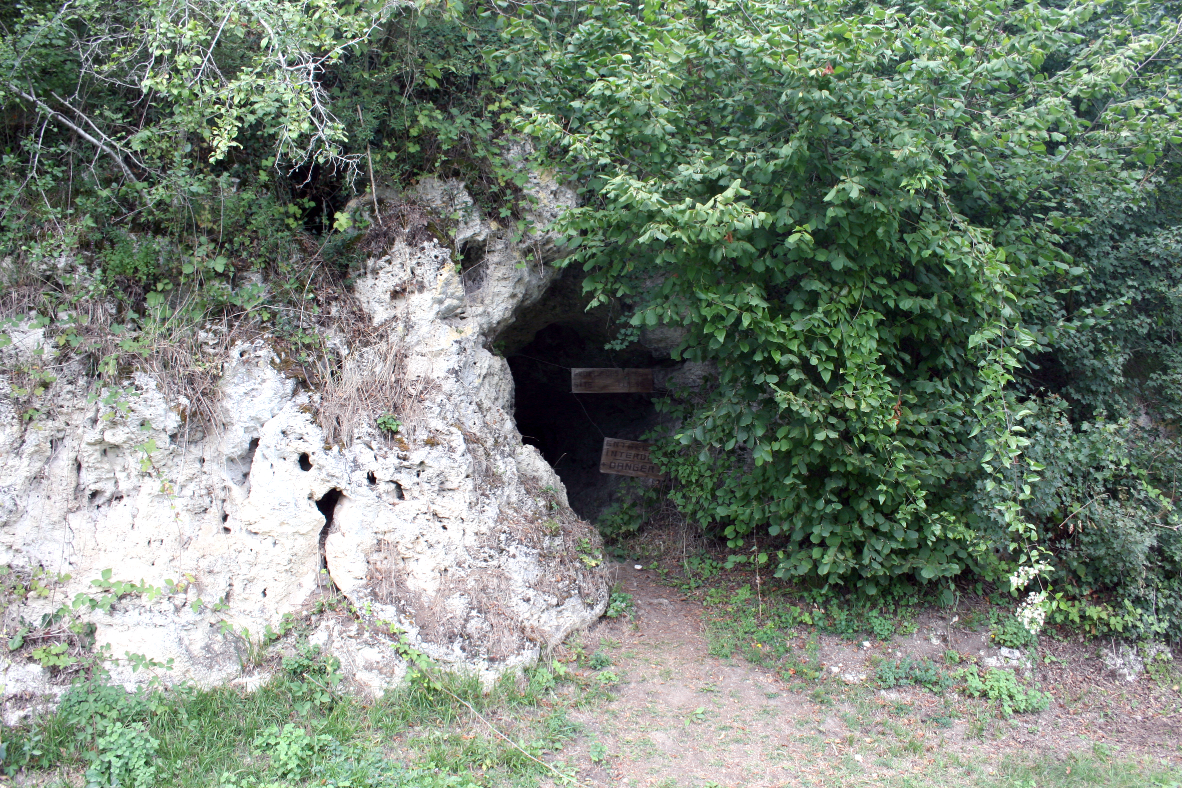 La Grotte des Fées archaeological site (Allier, France), type site of Châtelperronian culture